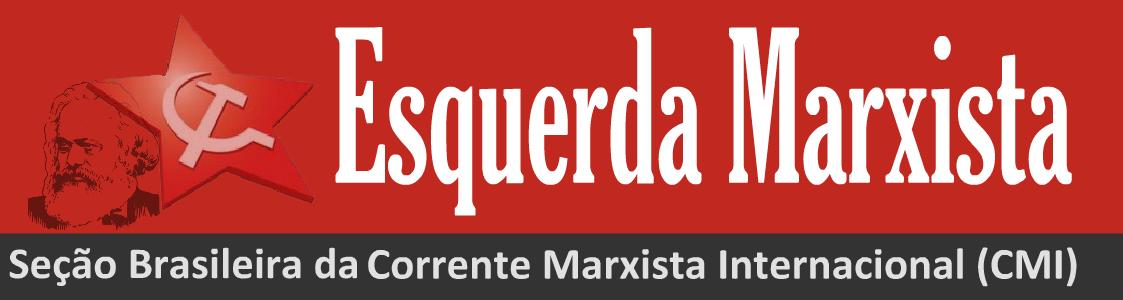 The banner of Brazilian Marxist group Esquerda Marxista.